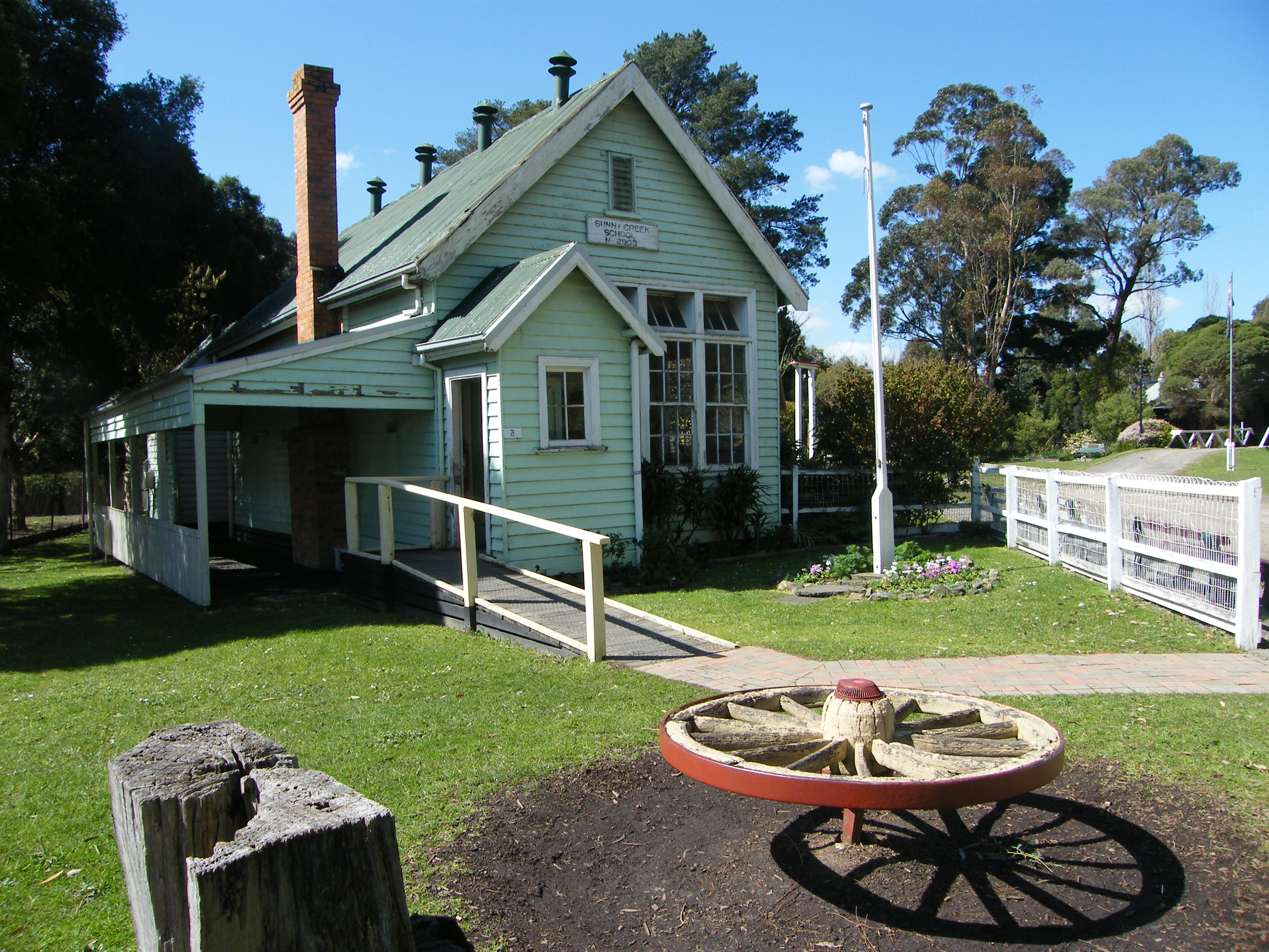 Sunny Creek State School SS2903. This building dates from the 1920s. It is now located in the Old Gippstown historical park in Moe, Victoria, Australia